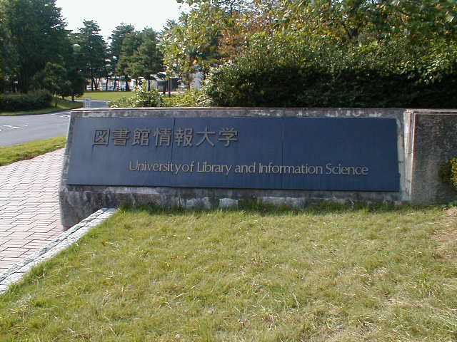 Main gate at University of Library and Information Science, Tsukuba, Japan